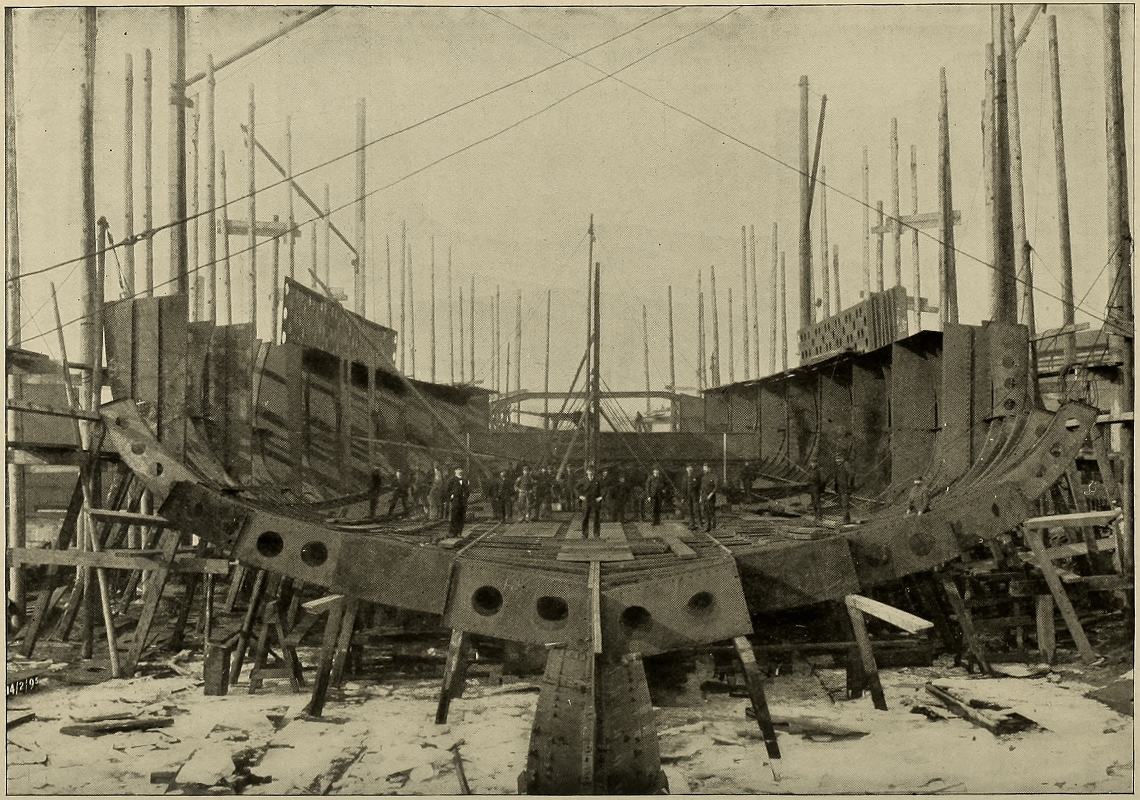 Cassier's Magazine of February 1898 had an article on page 275-292, written by Eustace Tennyson d'Eyncourt and titled The Japanese Battleship Yashima. It was accompanied by a number of illustrations, including this photo, showing the after end of the vessel, two months after the keel was laid at Armstrong, Whitworth and Co in Elswick, on page 280.